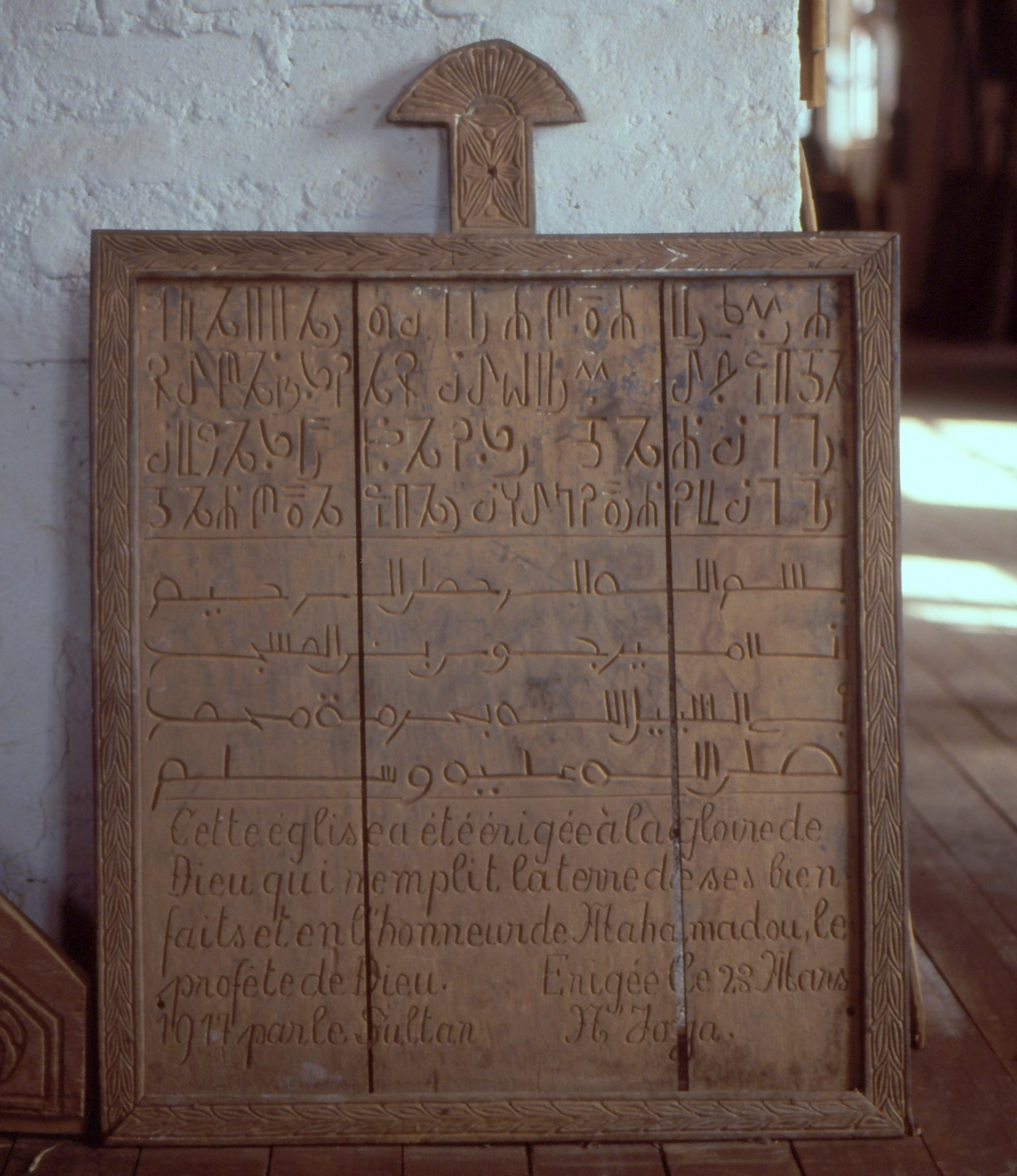 Script tablet at the museum of Foumban, Cameroon, 1991